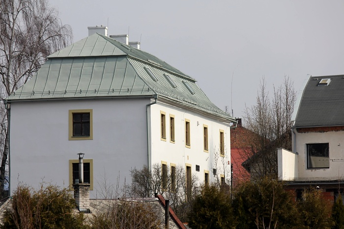 Regional Museum in Žďár nad Sázavou's residence - the town stronghold